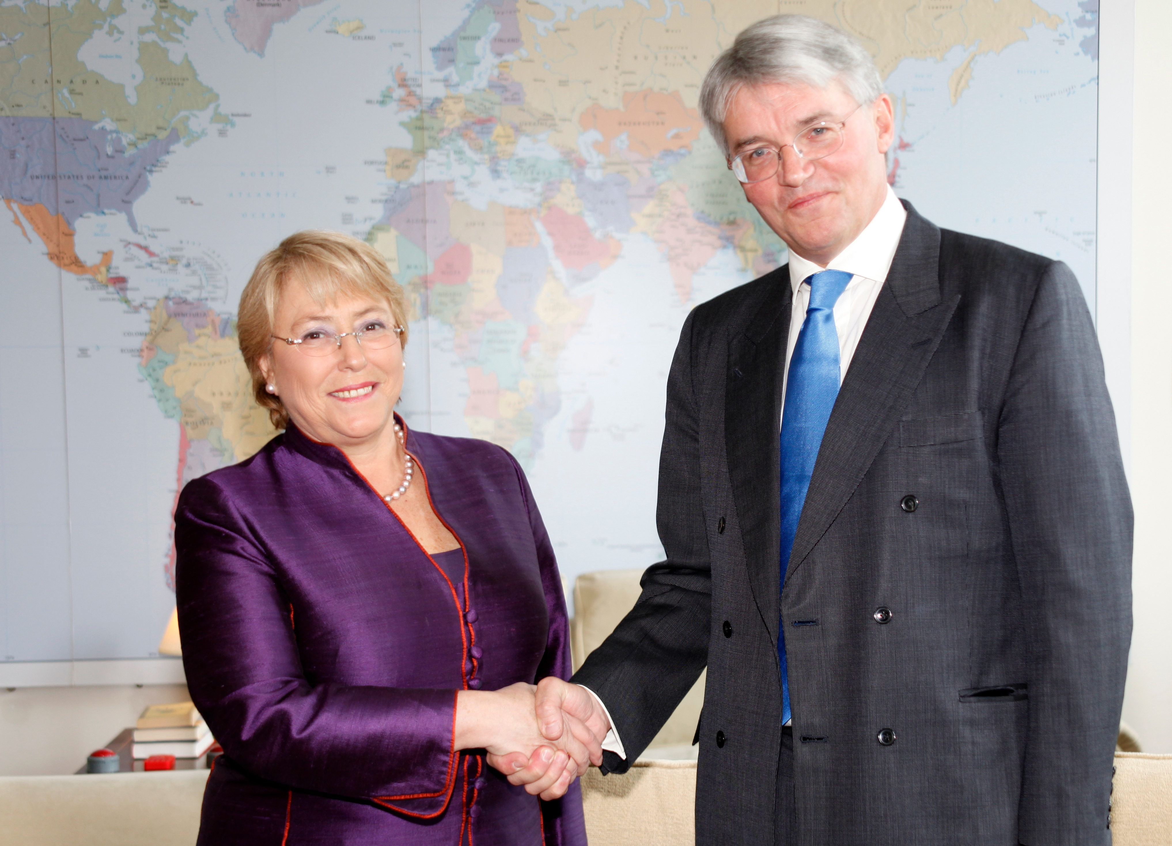 Head of UN Women, and ex-President of Chile, Michelle Bachelet, meeting with Secretary of State for International Development, Andrew Mitchell, on a visit to the headquarters of DFID in London. For more information please Terms of use This image is posted under a Creative Commons - Attribution Licence, in accordance with the Open Government Licence. You are free to embed, download or otherwise re-use it, as long as you credit the source as 'Department for International Development'.